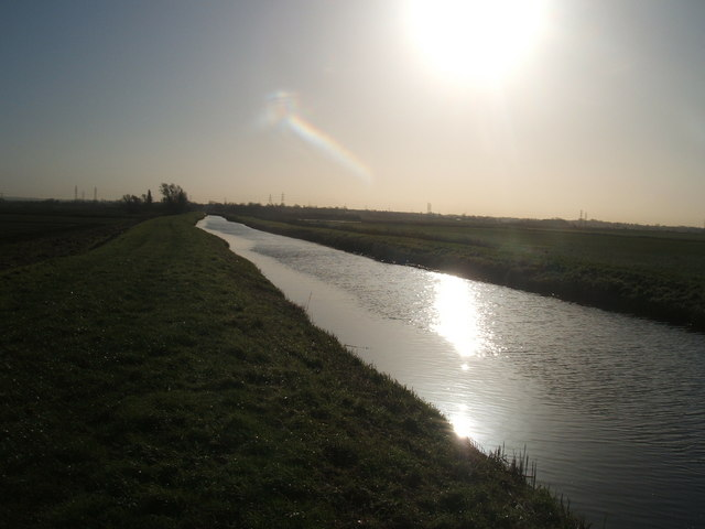 Looking south-east along Reach Lode towards Reach Village